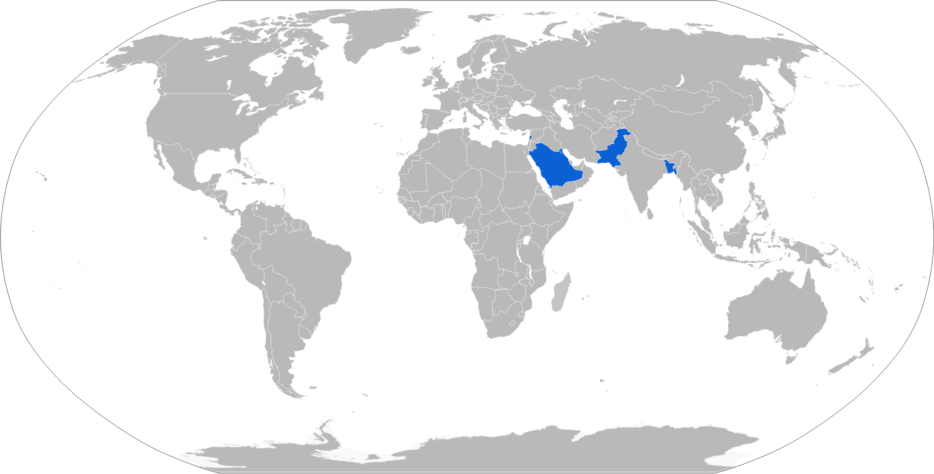 Fixed the map (again) to include Lebanon as well, as it is mentioned in the citation [3]